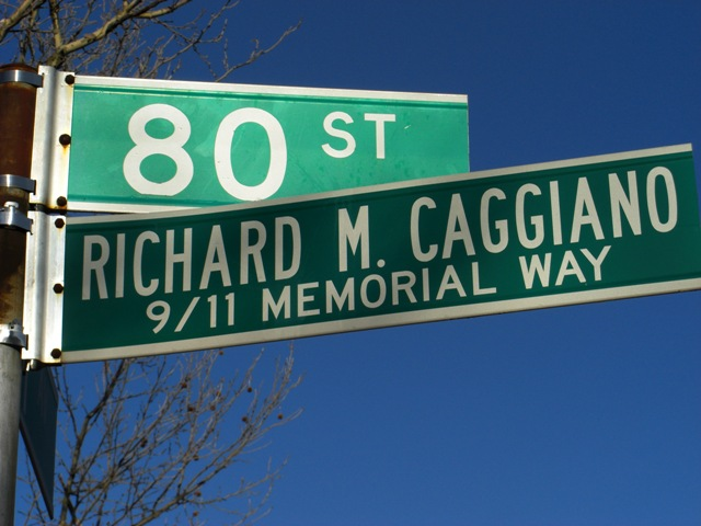 Richard M. Caggiano 9/11 Memorial Way sign is located on the north east corner of 11th Avenue and 80th Street in Dyker Heights.